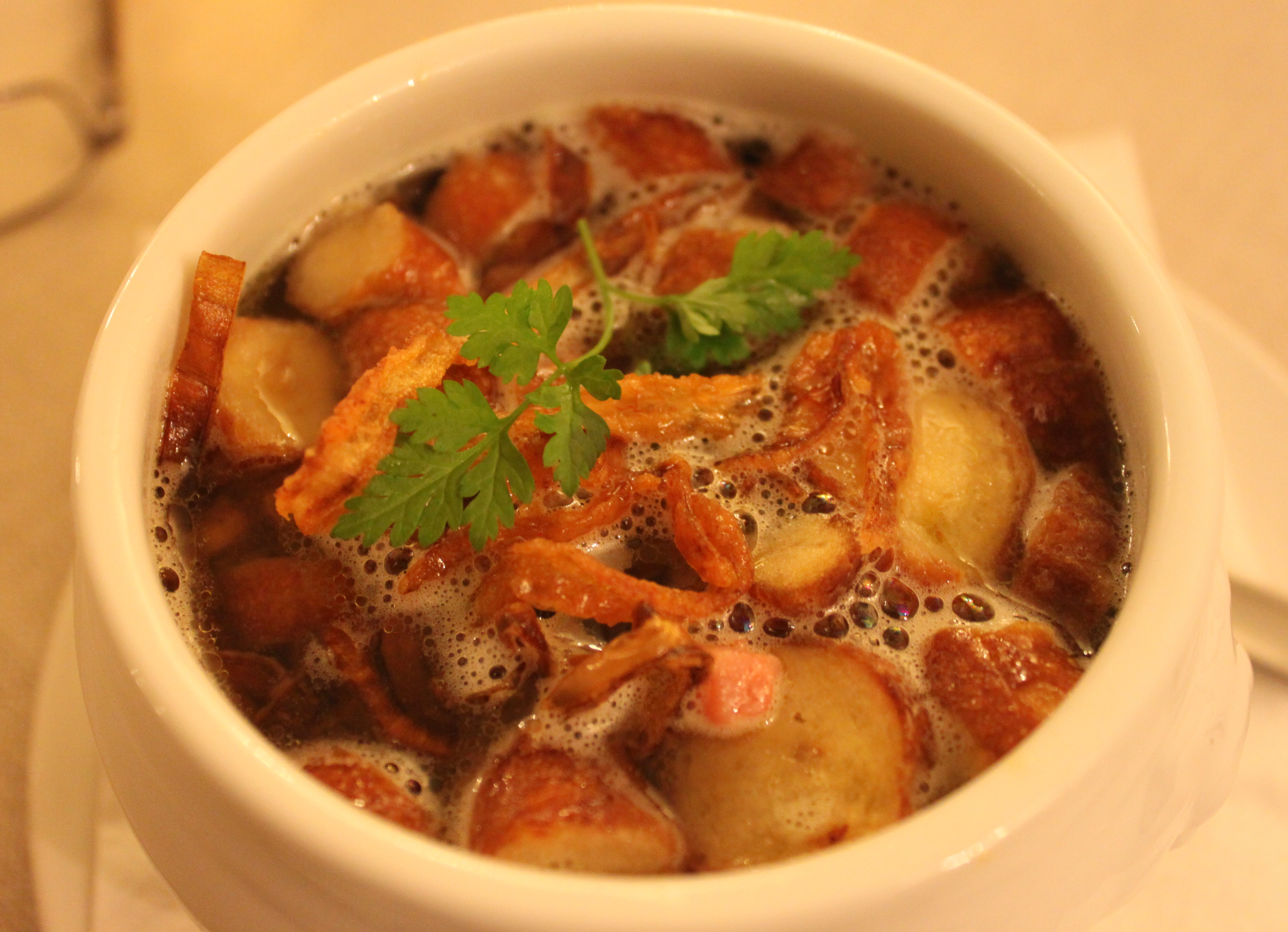 Brezensuppe: Pretzels are chopped and doused with broth, plus there is roastet bacon and onions.